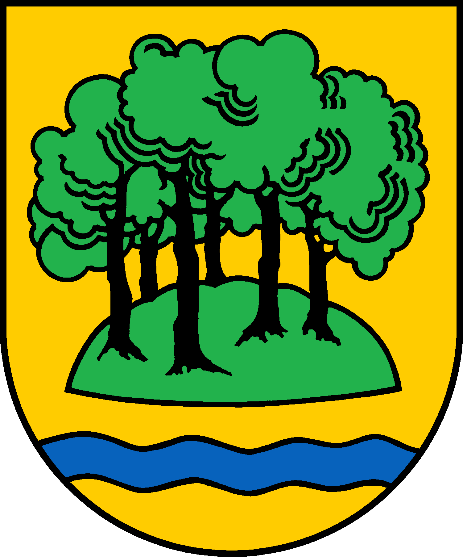 Coat of arms of the municipality Grabau in Schleswig-Holstein, Germany.